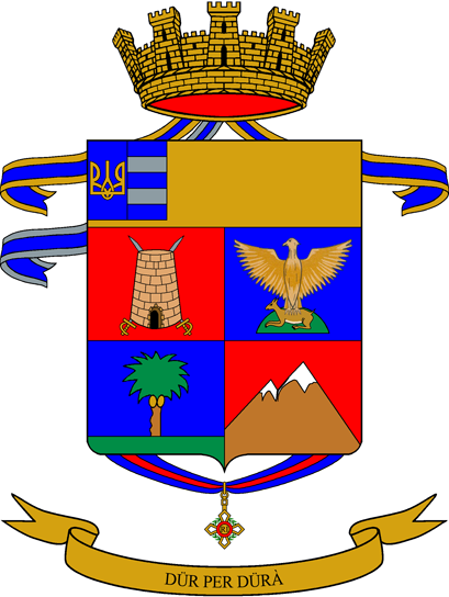 Coat of Arms of the 18° Alpini Regiment; Italian Army.